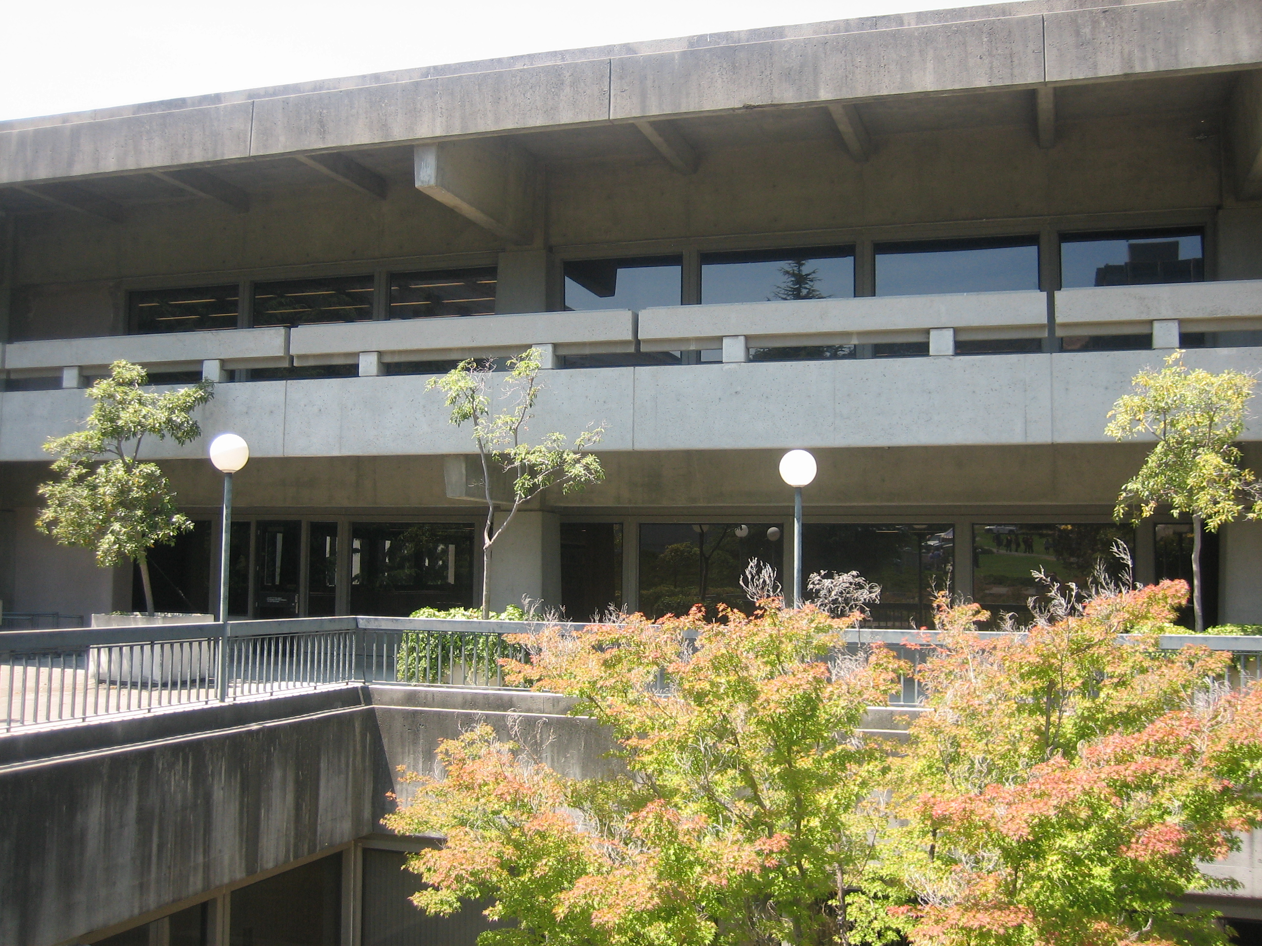 Upper level of Moffitt Library at the University of California, Berkeley